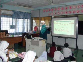 Mathematics Access Center